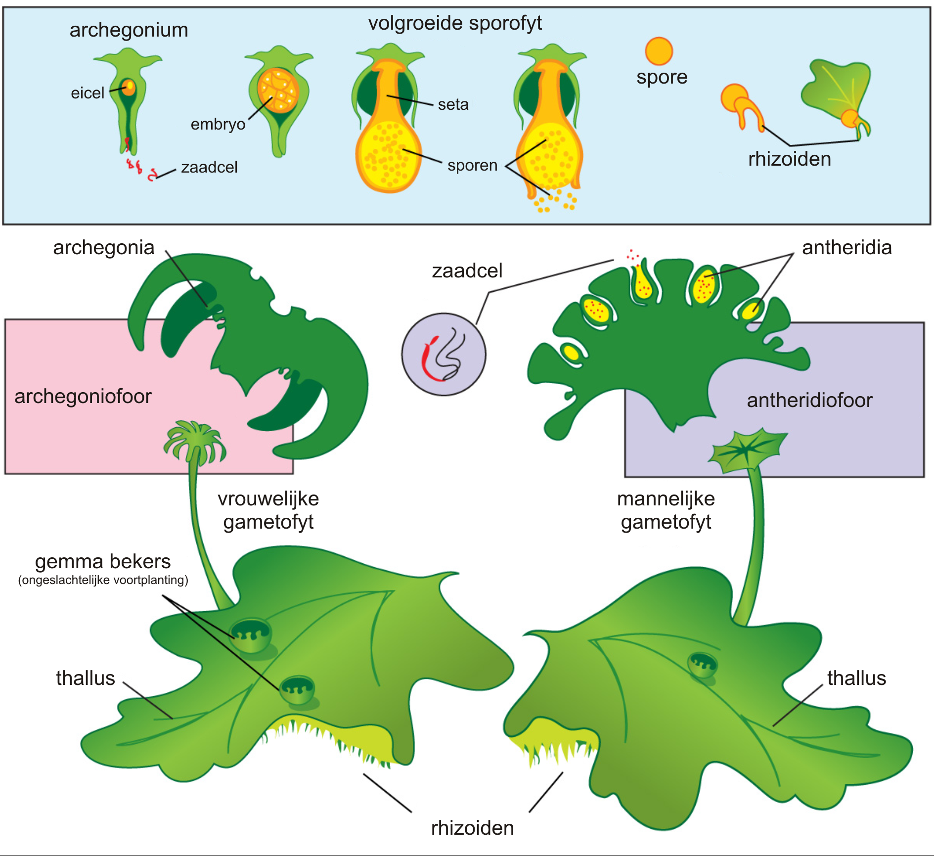 Levenscyclus van Marchantia polymorpha